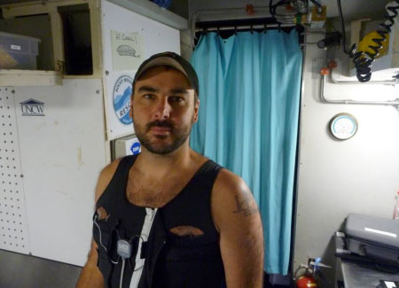 Aquarius habitat technician, James Talacek, wearing the LifeShirt.